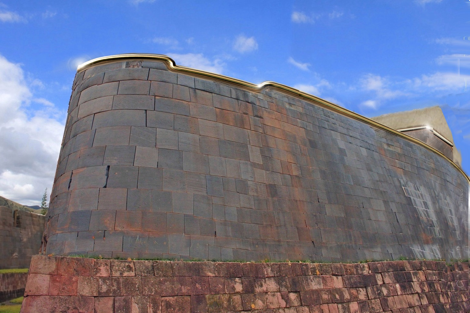 A digital recreation of the Sun Temple (Coricancha) of Cusco, with gold ornaments, before European arrival. Xauxa image ( was used as a model.